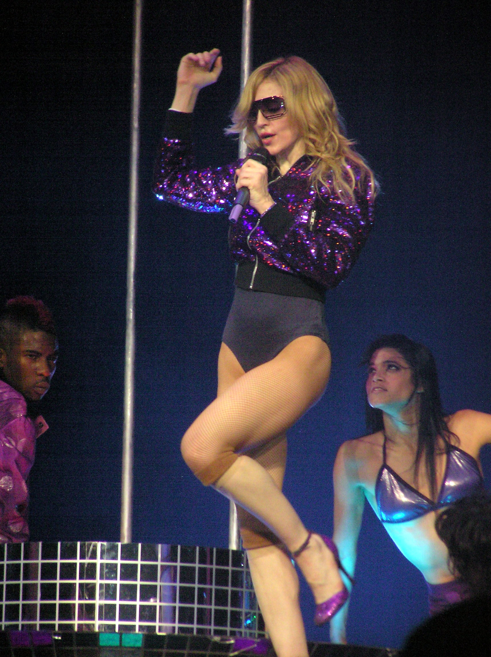 Madonna concert in Fresno